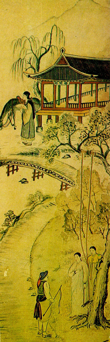 Chunhyangjeondo (All paintings of Chunghyang Story). Anonymous painting. Painted in the Joseon Dynasty.